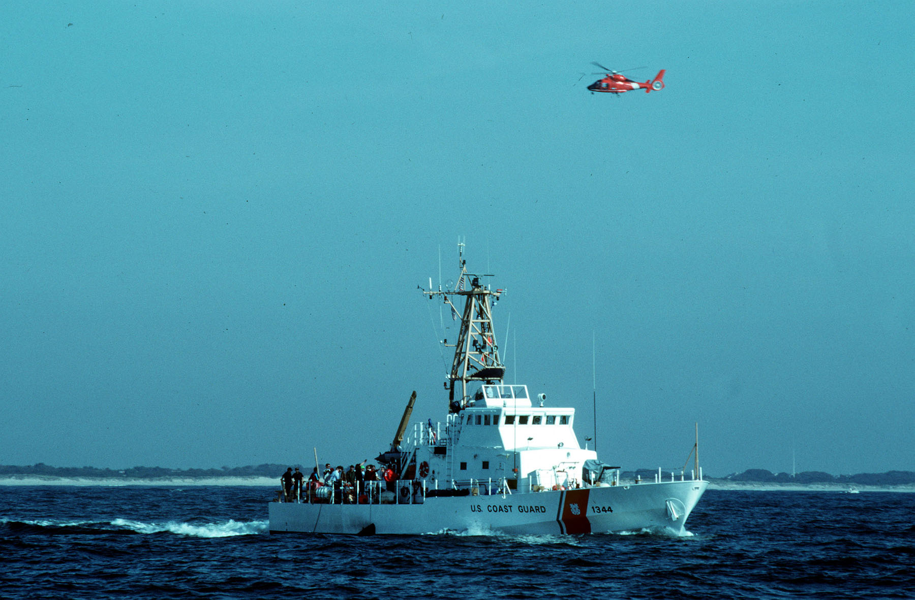 Oct. 2 -- USCGC Block Island with helicopter flying overhead. USCGC photo by EGGAN, ERIC PA1.